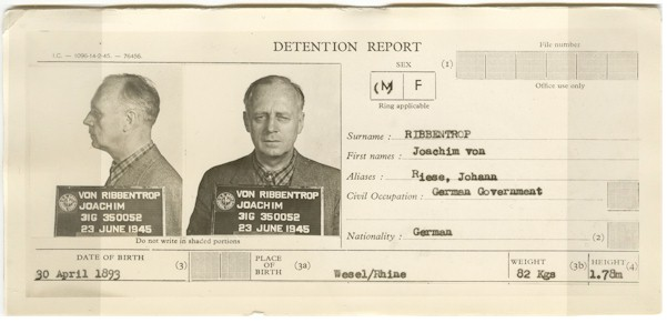 Detention report and Mugshots of Joachim von Ribbentrop